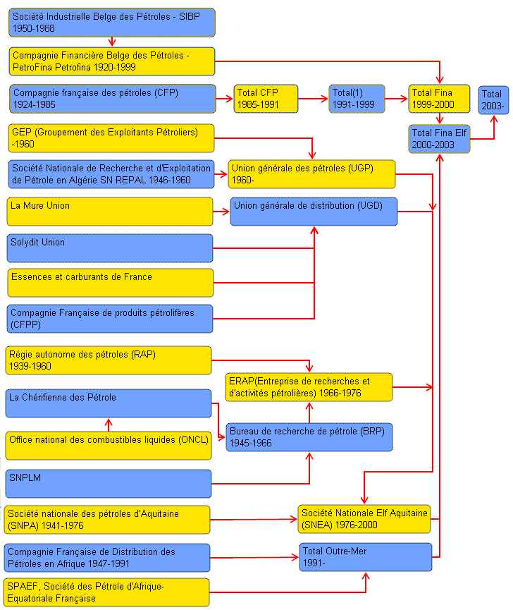 The diagram is erroneous about the absorption of Antar because, during the seventies, that French company (Antar) was not absorbed by Total but by Elf, see notably Antar.